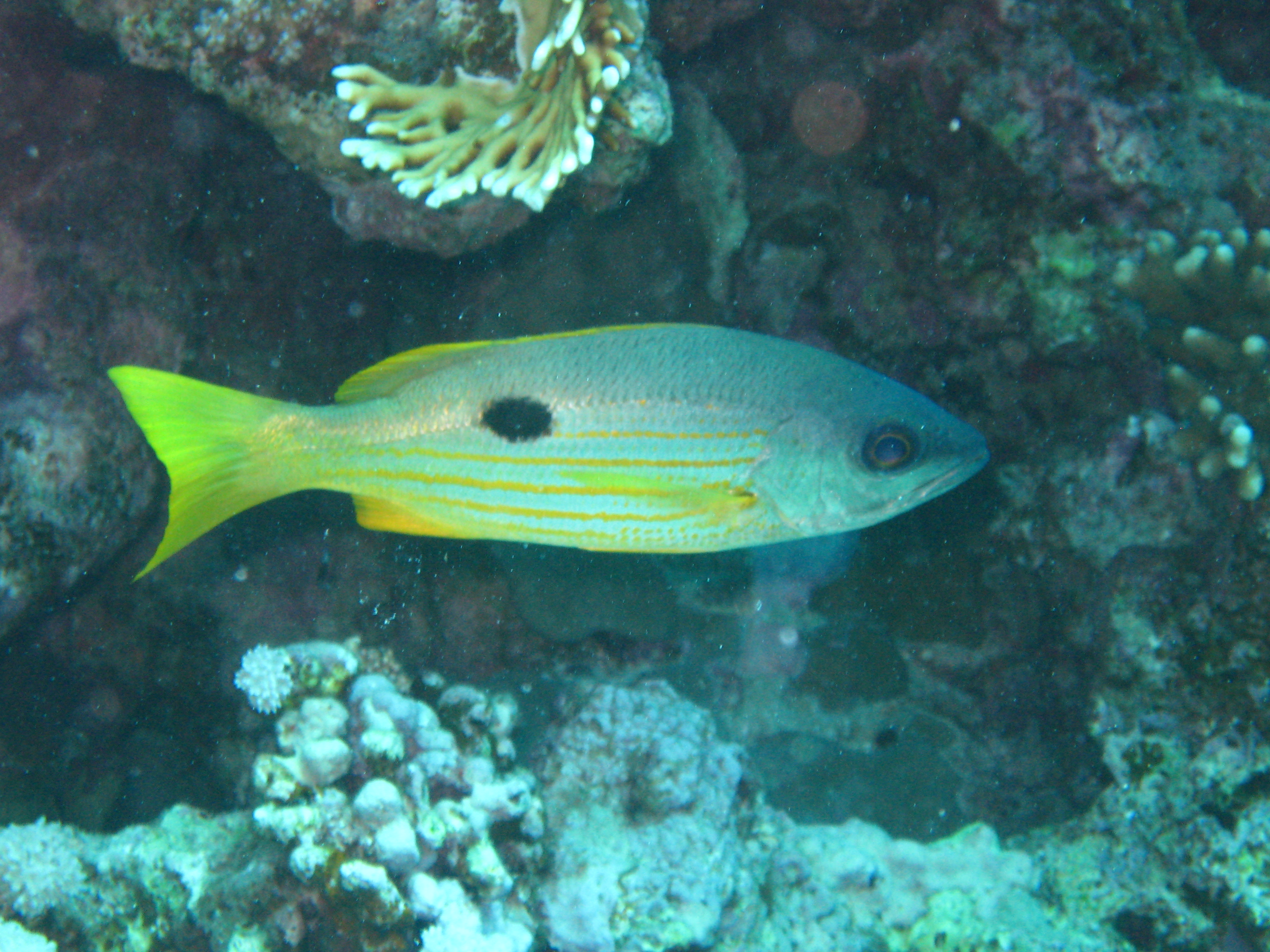 Lutjanus ehrenbergii. Photo taken in the red sea near Safaga